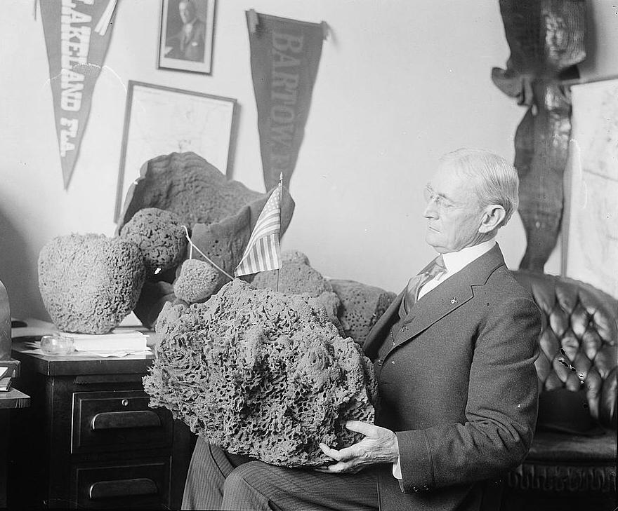 Herbert J. Drane, Congressman from Florida, is from Tarpon Springs which is said to be the largest sponge market in the world. Mr Drane's office gives the appearance of a permanent sponge exhibit. The walls are covered with sponges of every size and variety. Photo shows Mr Drane with some of his choice specimens.